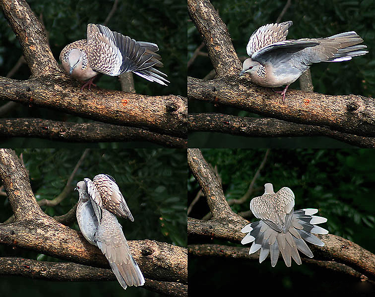 Spotted Dove Streptopelia chinensis in Kolkata, West Bengal, India.